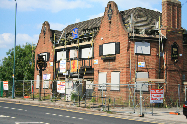 The Red Lion being demolished This was once a prominent landmark on the way into Nottingham along the A610 from the north, not for much longer.